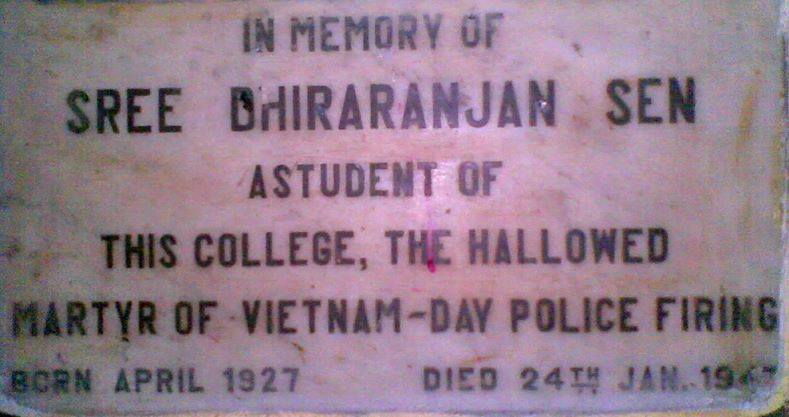 Sree Dhiraranjan Sen,an MBBS Student of Medical College,Kolkata and student leader of AISF(All India Students' Federation, founded on 12 August 1936,the first national Indian union of students) was died on Vietnam Day Police firing,1947 in front of Senate House,Calcutta University.on the same day,200 others injured,of whom 21 received bullet wounds,including some lady students also due to unprovoked and unwarranted lathi charge by Police on the peaceful demonstration of students against Imperialism.Later The Vietnam Students’ Association passed a resolution in its Hanoi session in memory of the Indian student martyr in March 1947.